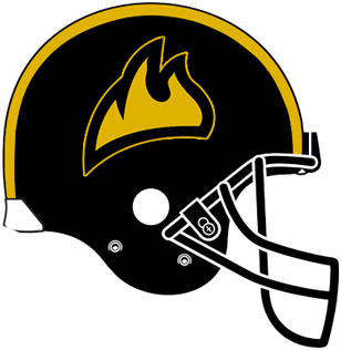 Helmet of LFA team Fundidores de Monterrey.